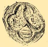 Seal of Pipo of Ozora (1369–1426)